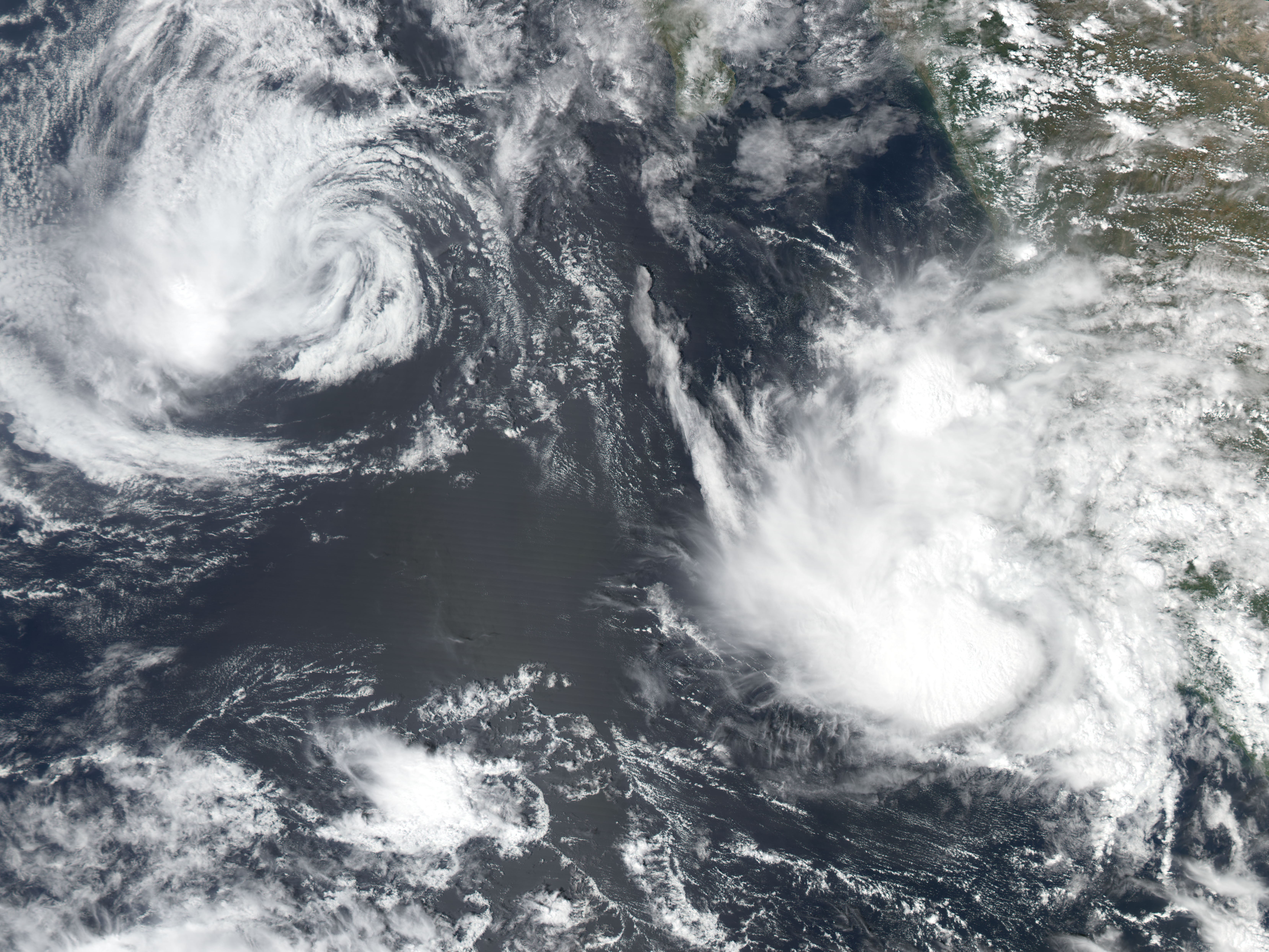 The MODIS instrument onboard NASA’s Aqua satellite captured this true-color image of two tropical systems in the eastern Pacific Ocean: Tropical Storm Nora (upper left) and Tropical Storm Olaf (bottom right). At the this image was taken Nora had maximum sustained winds of 46 mph while Olaf had sustained winds of 50 mph and was forecast to slightly strengthen before making landfall near Manzanillo.